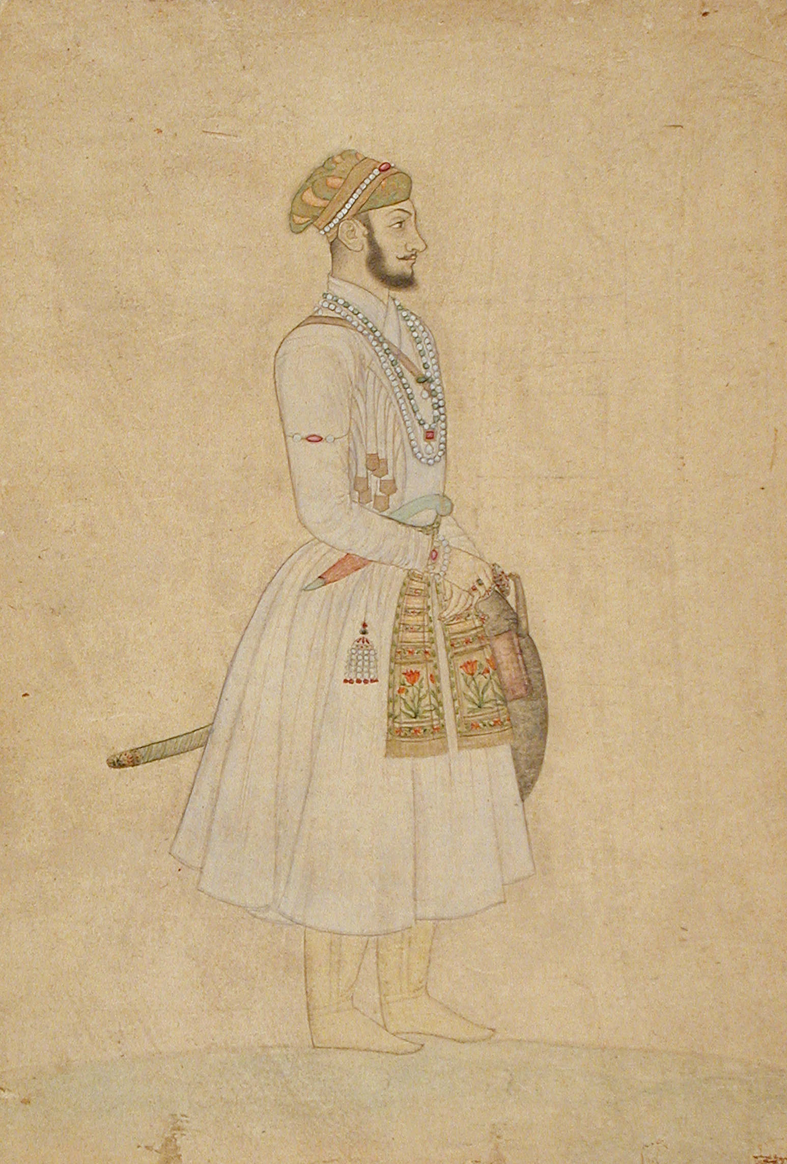 Emperor Shah Alam Bahadur (Bahadur Shah I, r. 1707-1712) when he was Prince Muhammad Muazzam